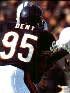 Chicago Bears defensive end Richard Dent pictured in a defensive play against the Detroit Lions during a home game circa 1987.